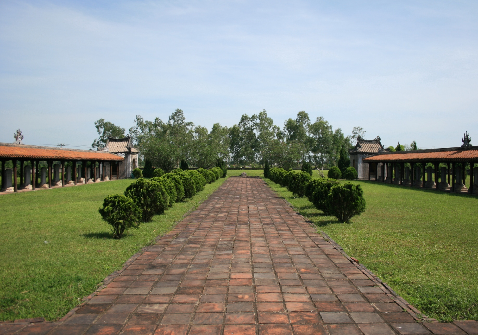 Stele bearing list of doctors (Bia tiến sĩ). Temple of Letters, Hue (Văn Thánh Huế))